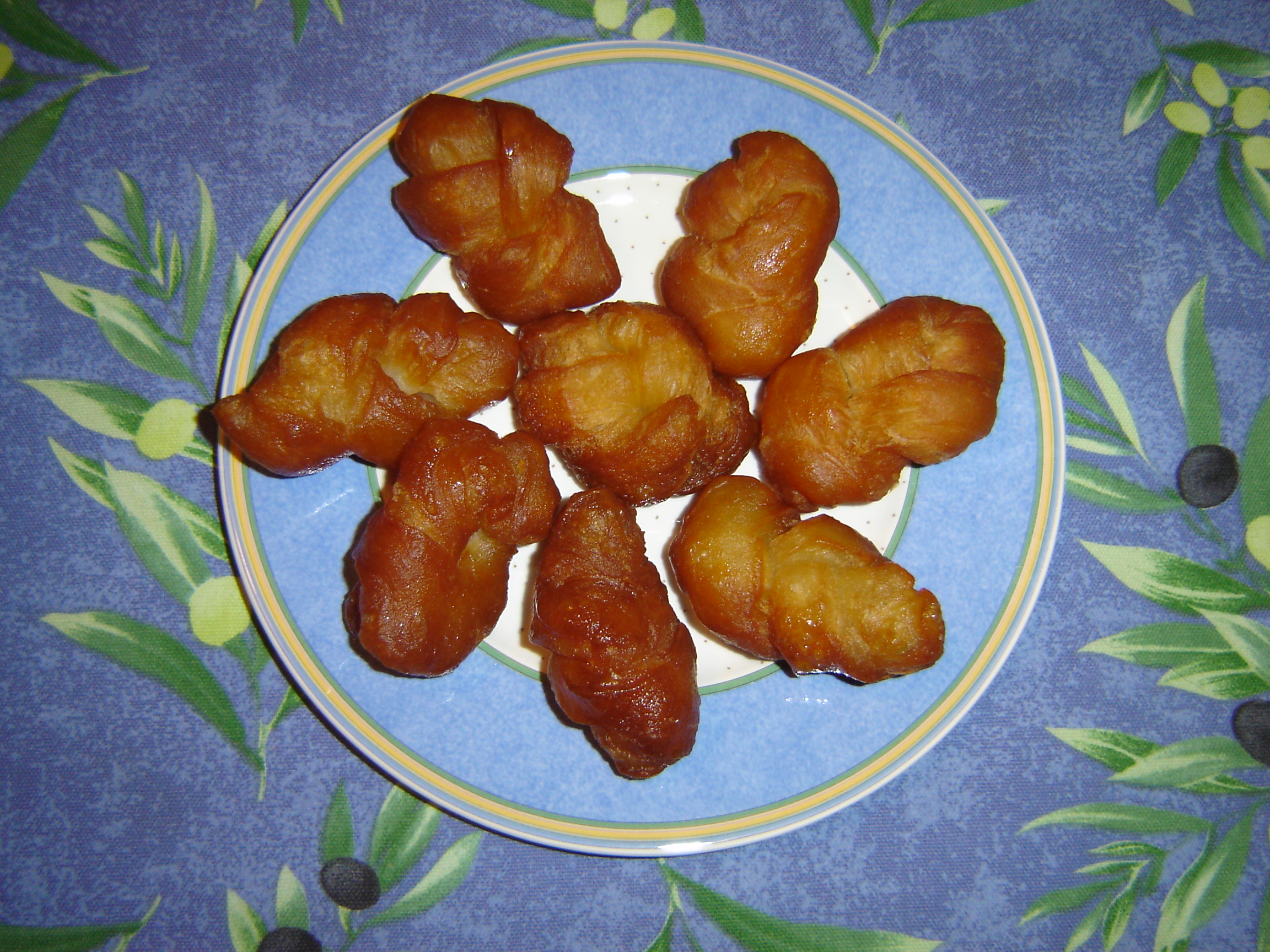 Summary Koeksisters, photographed by DO'Neil.